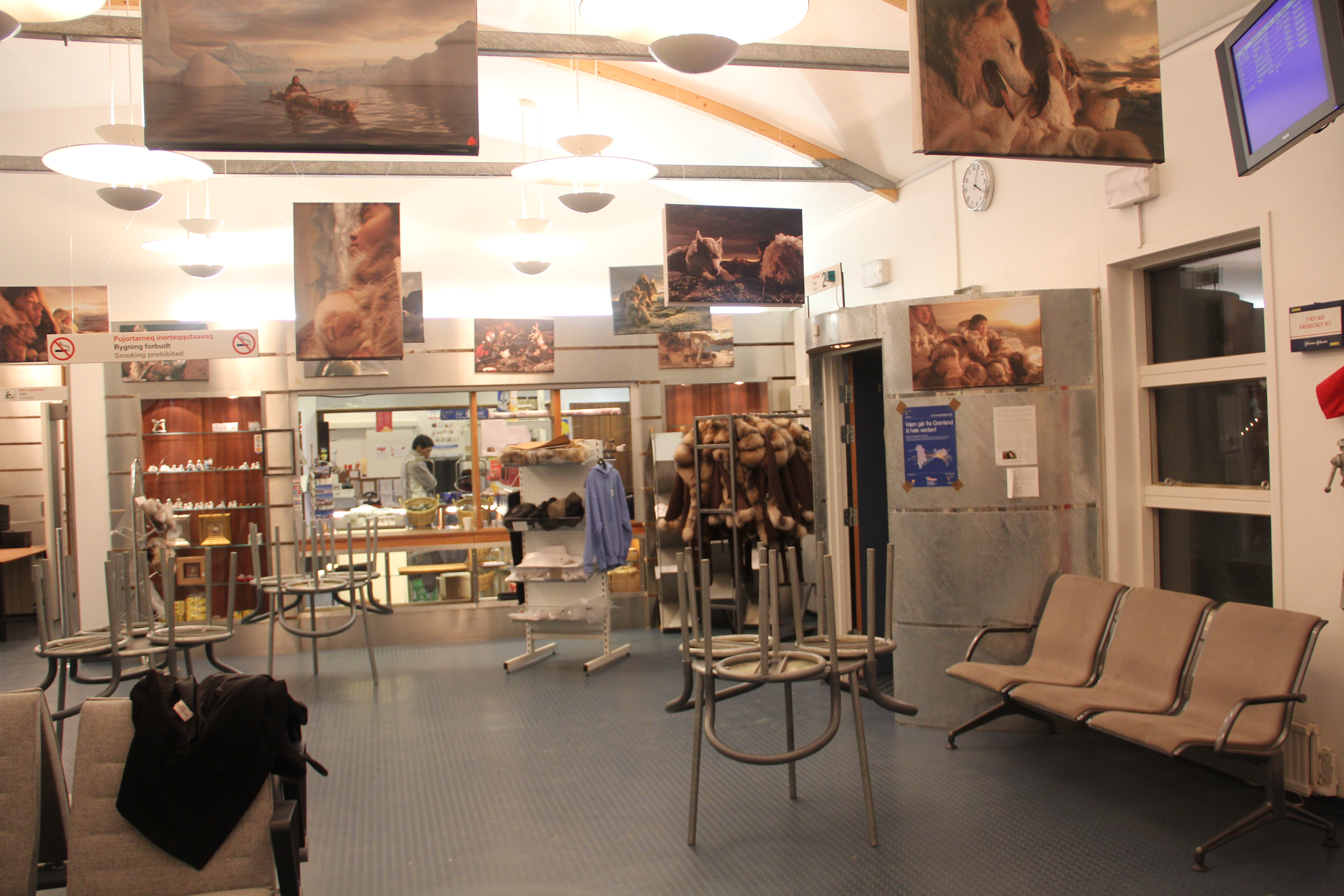 Kulusuk Airport, inside